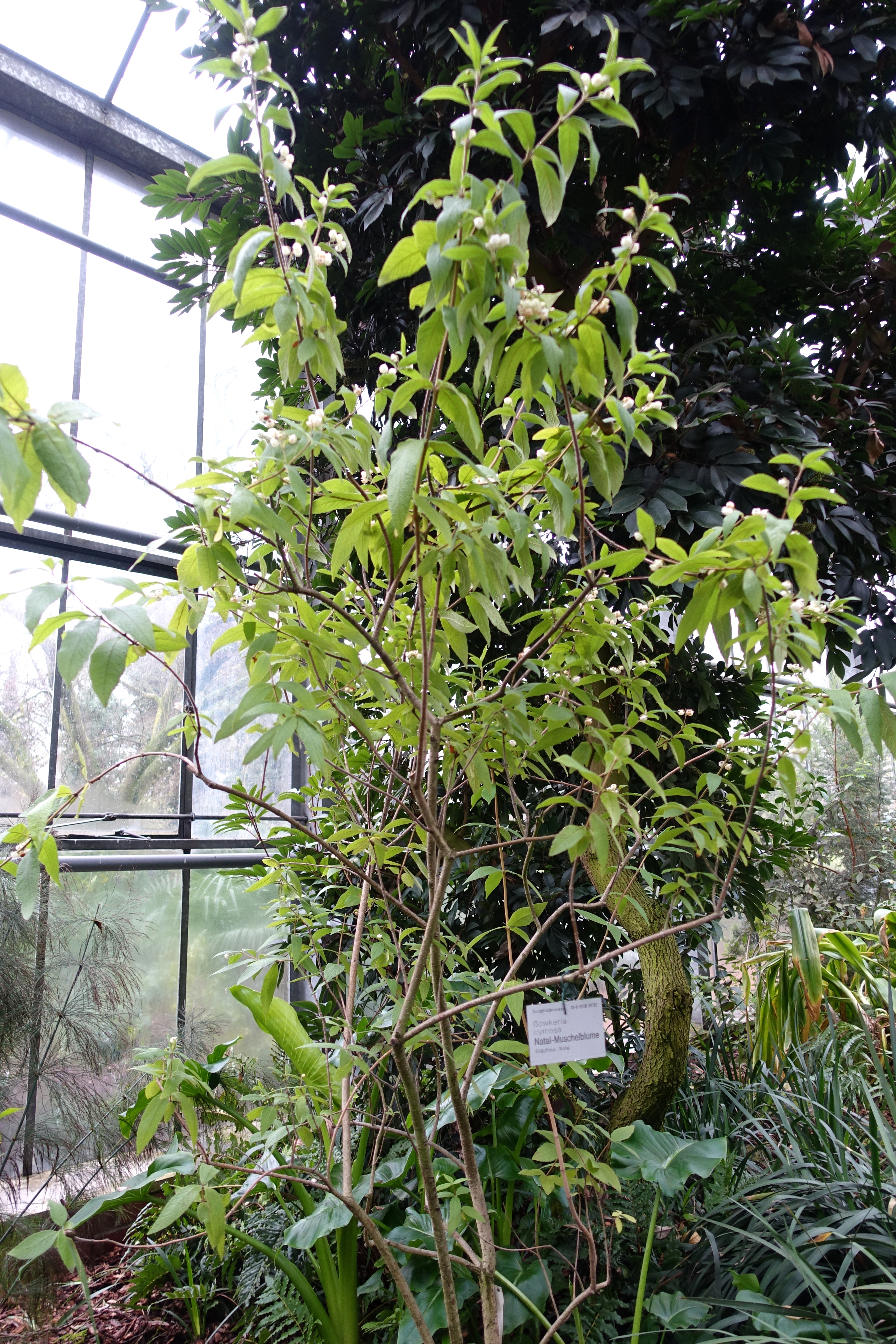 Botanical specimen in the Flora und Botanischer Garten Köln - Cologne, Germany.